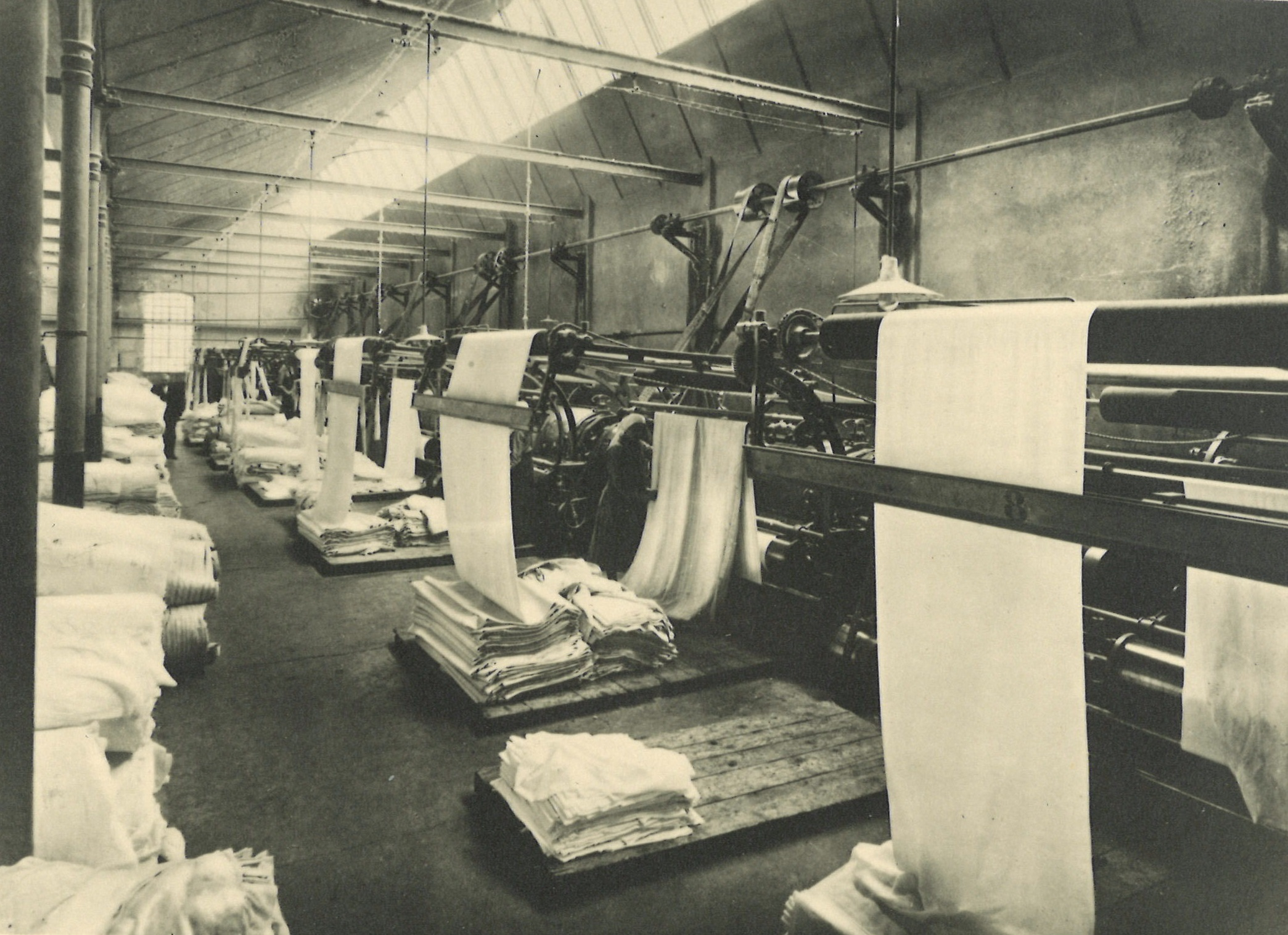 Textile gauze room of Mylius-Bernocchi fashion textile factory, April 1920